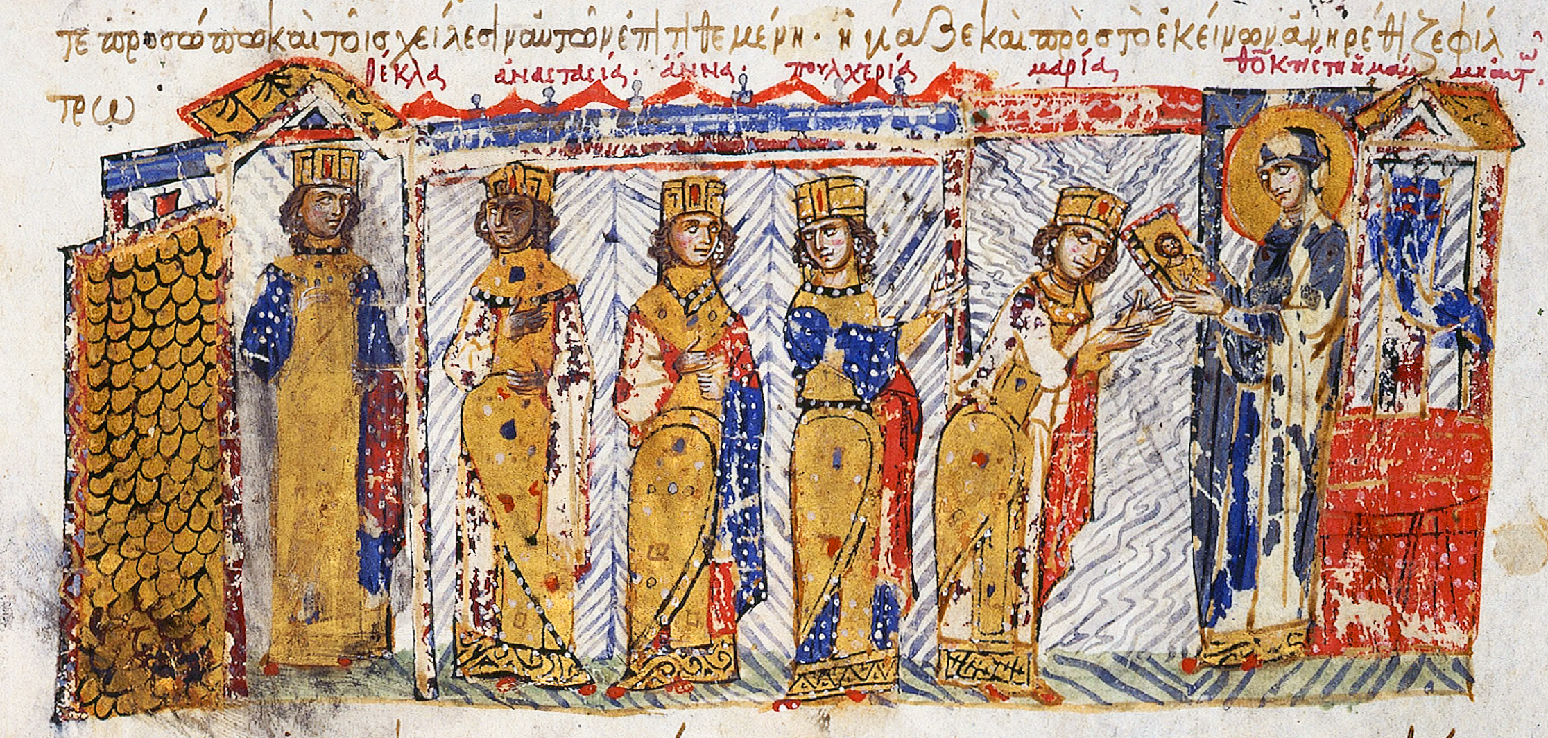 The daughters of Empress Theodora being instructed in the veneration of the icons by their grandmother Theoktiste. Skyllitzes Matritensis, fol. 44v, detail